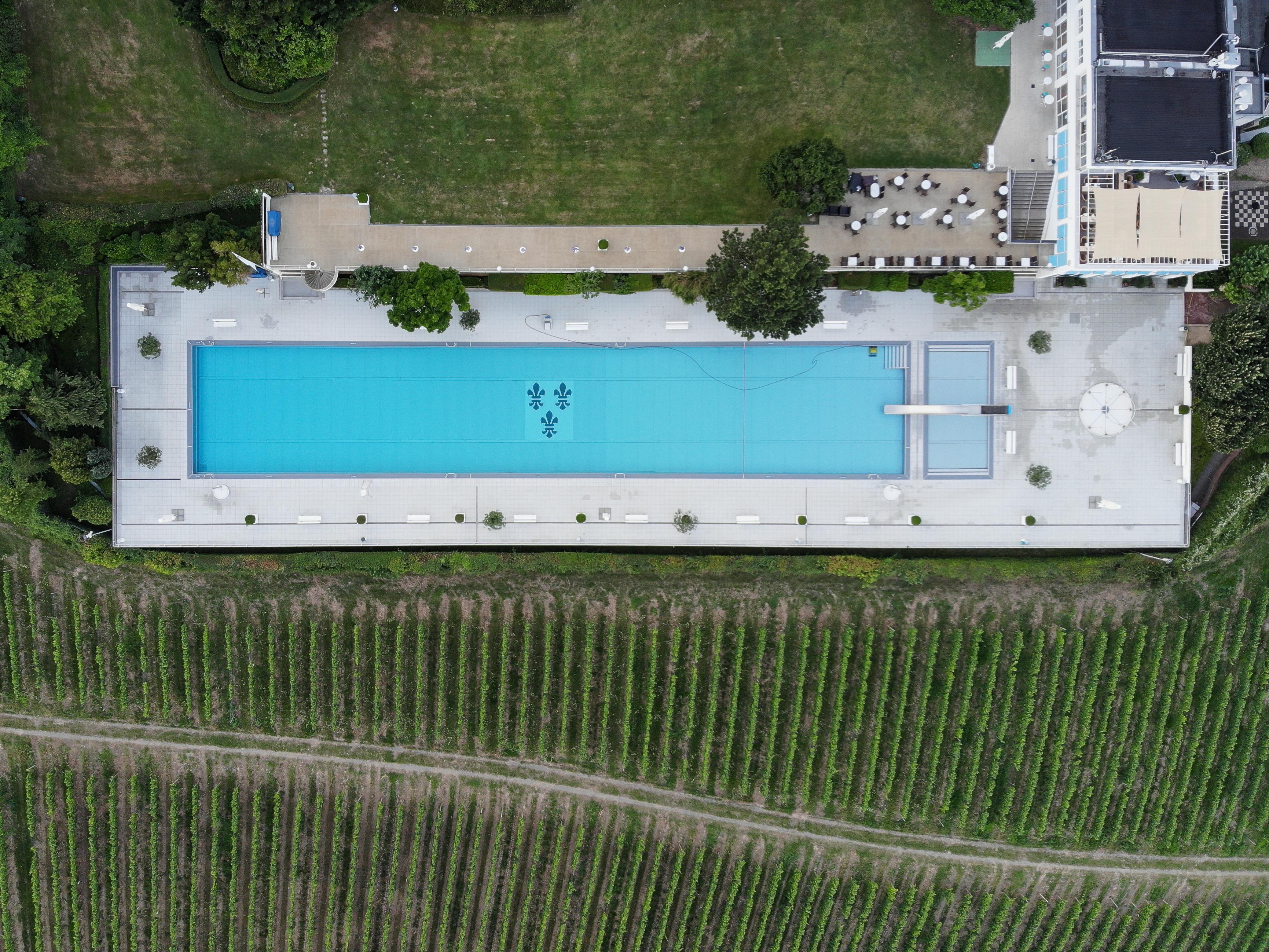 The Opelbad